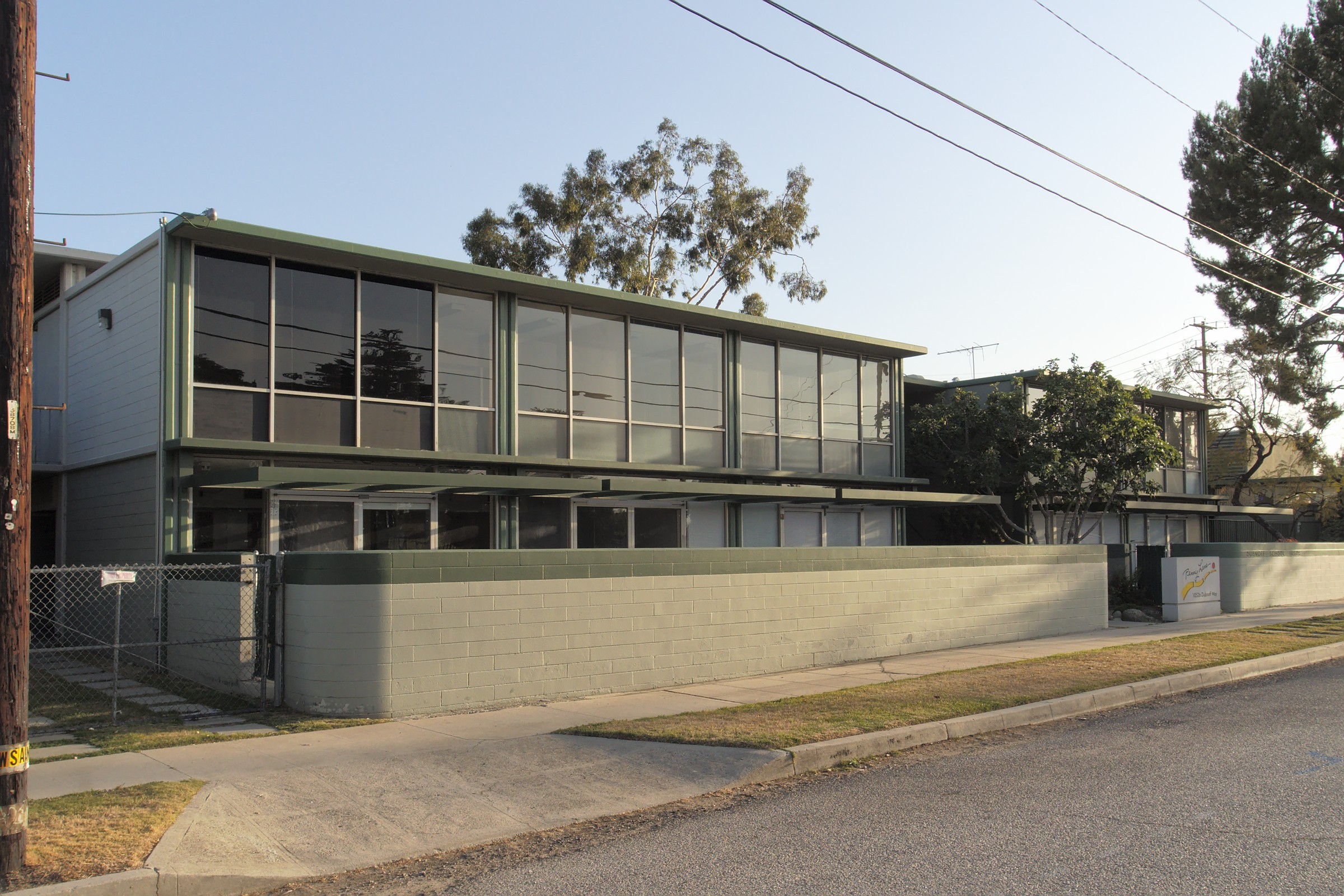 Dubnoff School for Educational Therapy main building, street view from the northeast. An exemplar of Mid-Century Modern design [1], and stands in stark contrast to more prison-like educational structures recently built in the area.